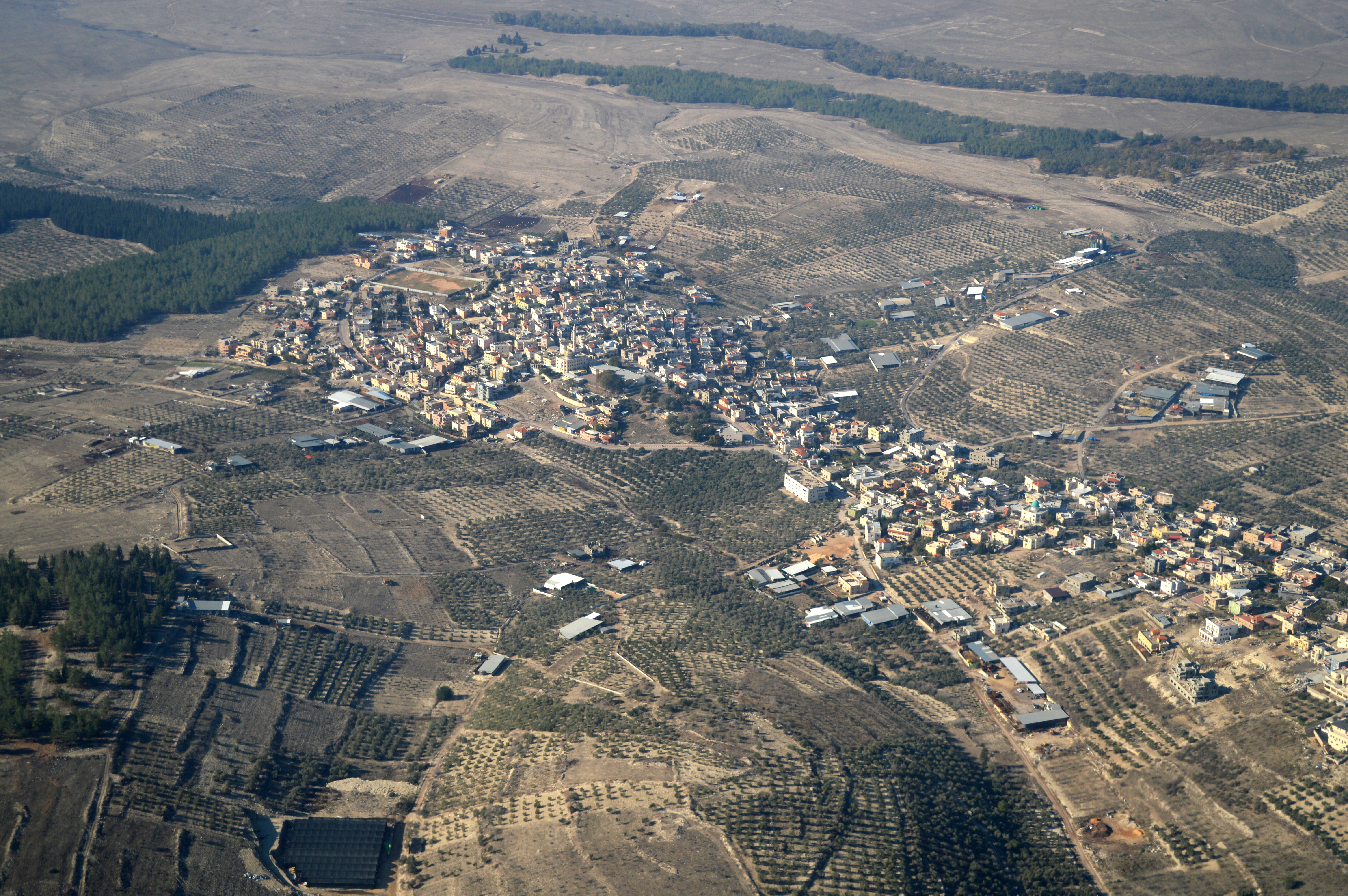 Aerial View of Israel